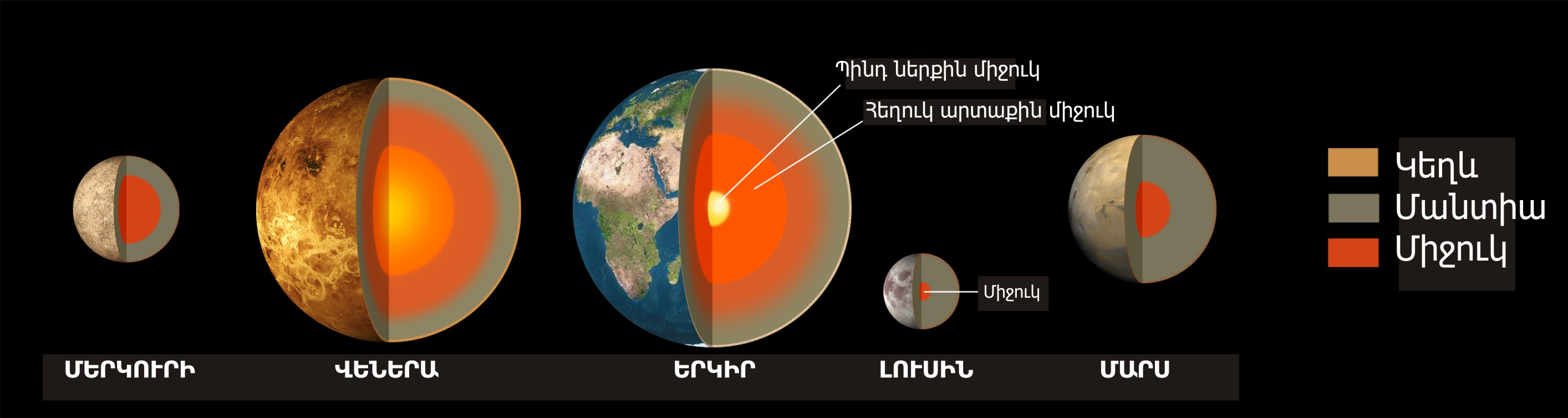 The internal structure of the inner planets.